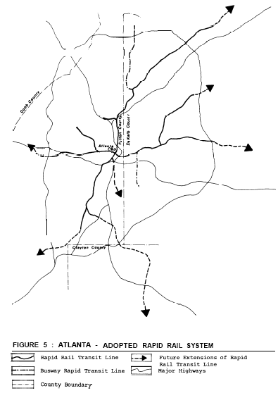 The image was obtained from Assessment of Community Planning for Mass Transit: Volume 2--Atlanta Case Study. United States Congress, Office of Technology Assessment. February 1976. It was the original plan of the Metropolitan Atlanta Rapid Transit Authority from the 1970s. Since it is from a US publication it should not be copyrighted.